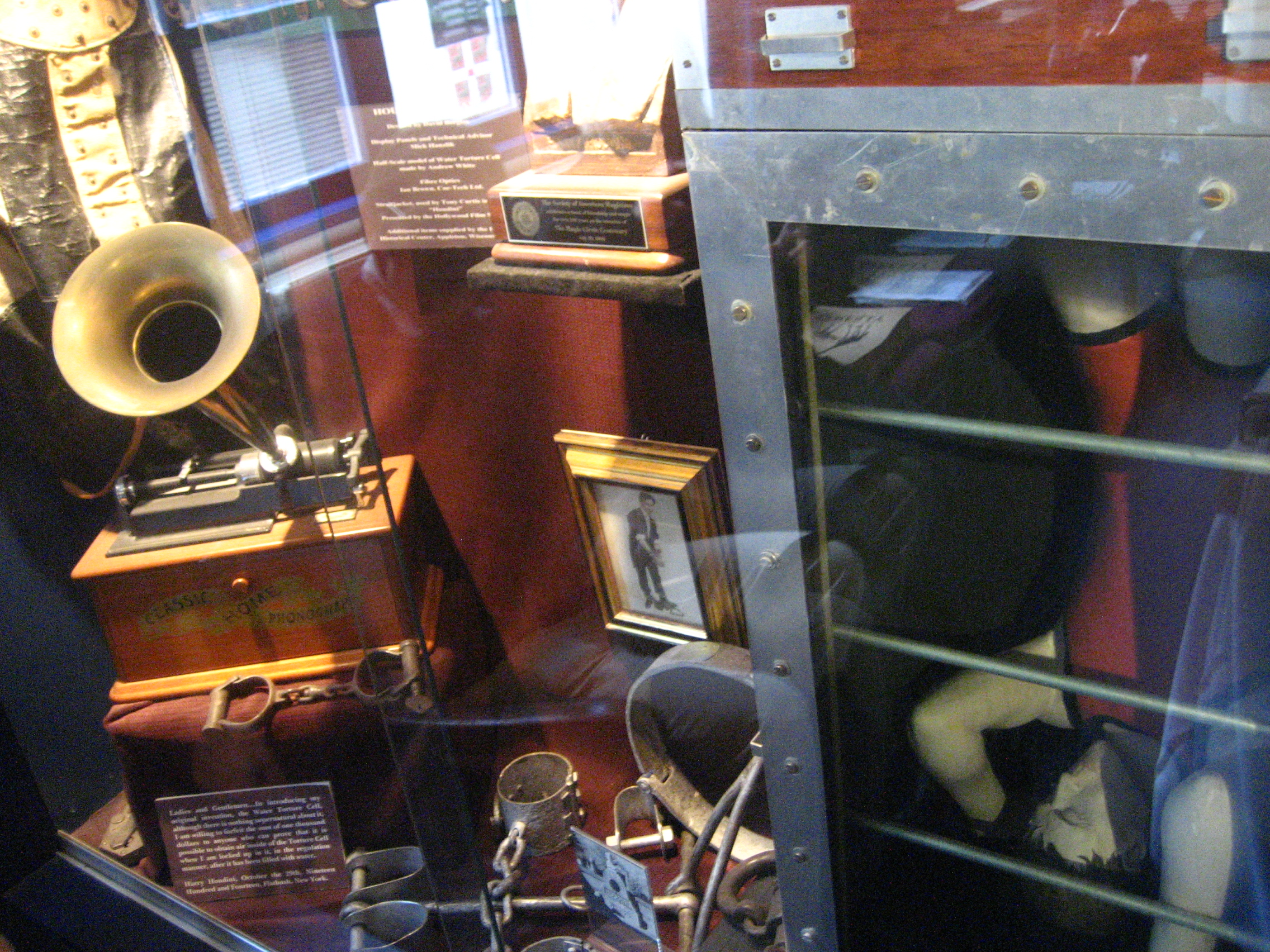 This photo of Houdini's Cabinet at The Magic Circle, London was taken on October 24, 2008